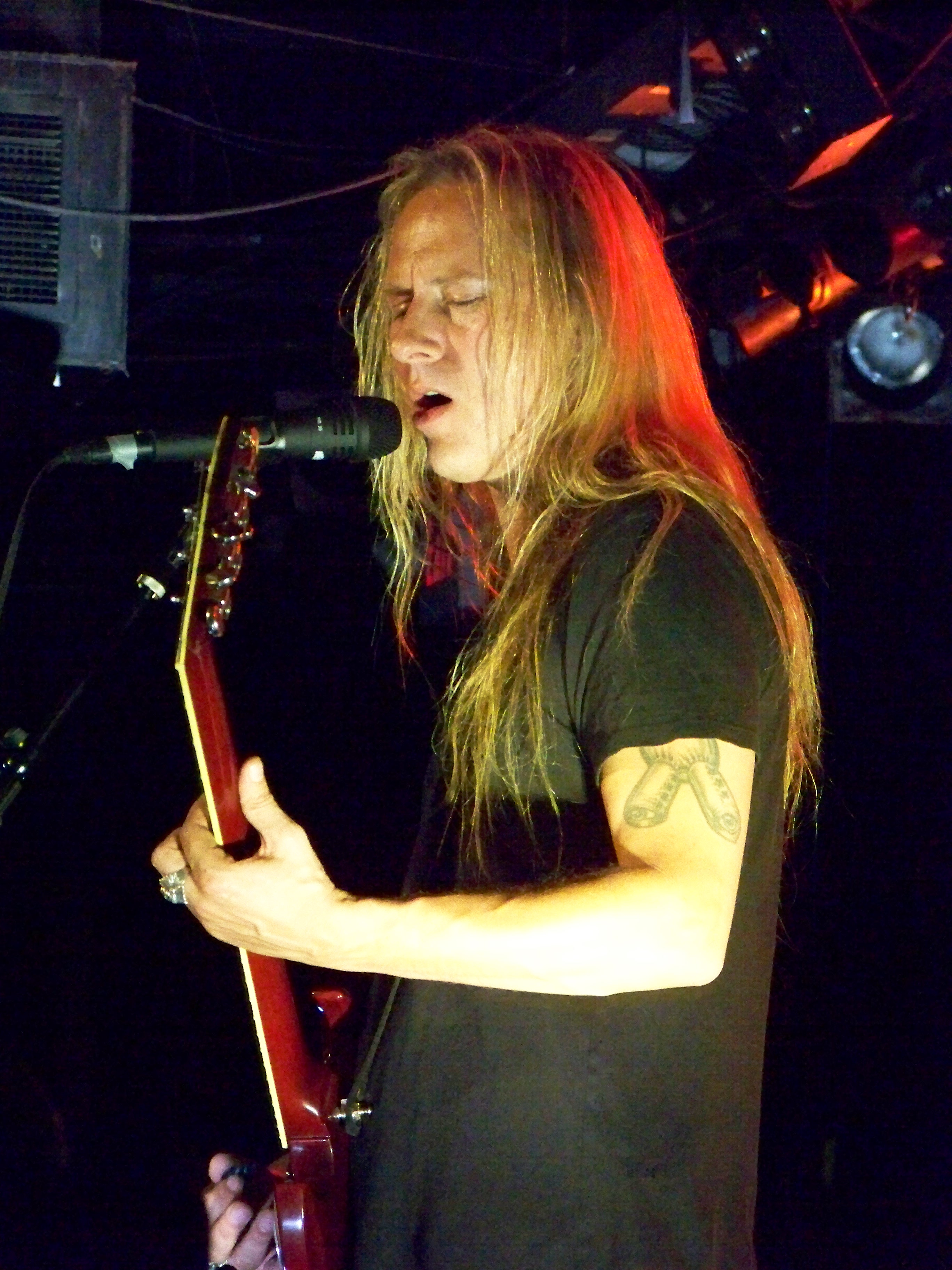 Jerry Cantrell performing in 2009.